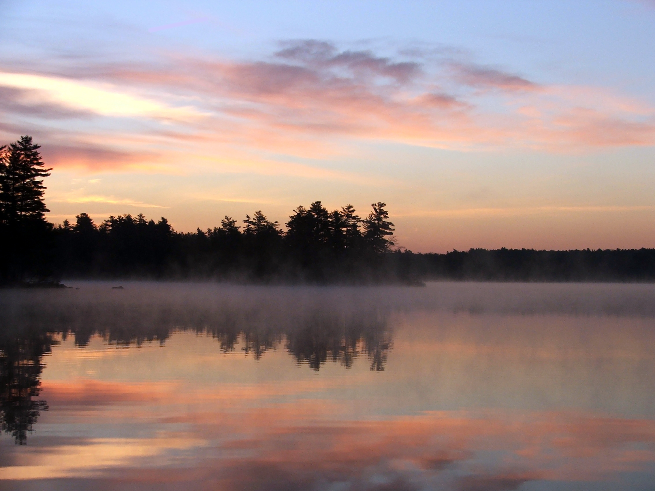 Taken by me in Naples, Maine. Used on [1] and .